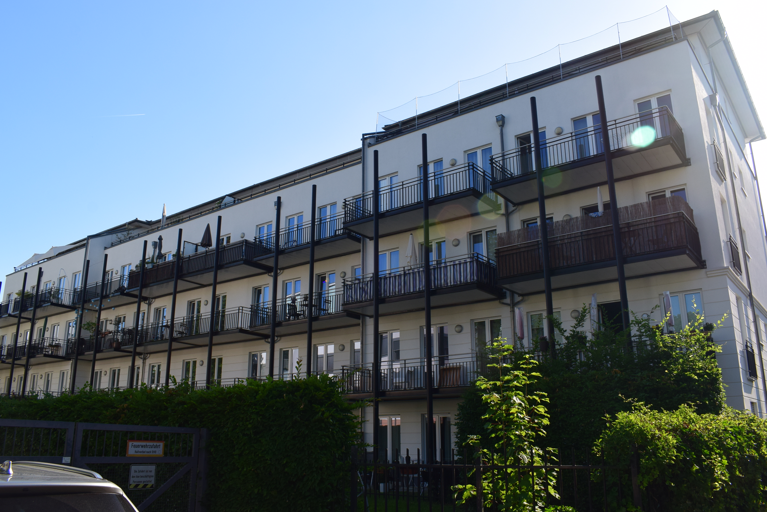 Henry und Emma Budge-Stiftung -Ansicht von Am Grünhof